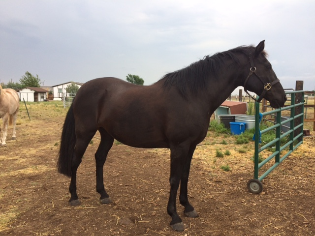 black mare